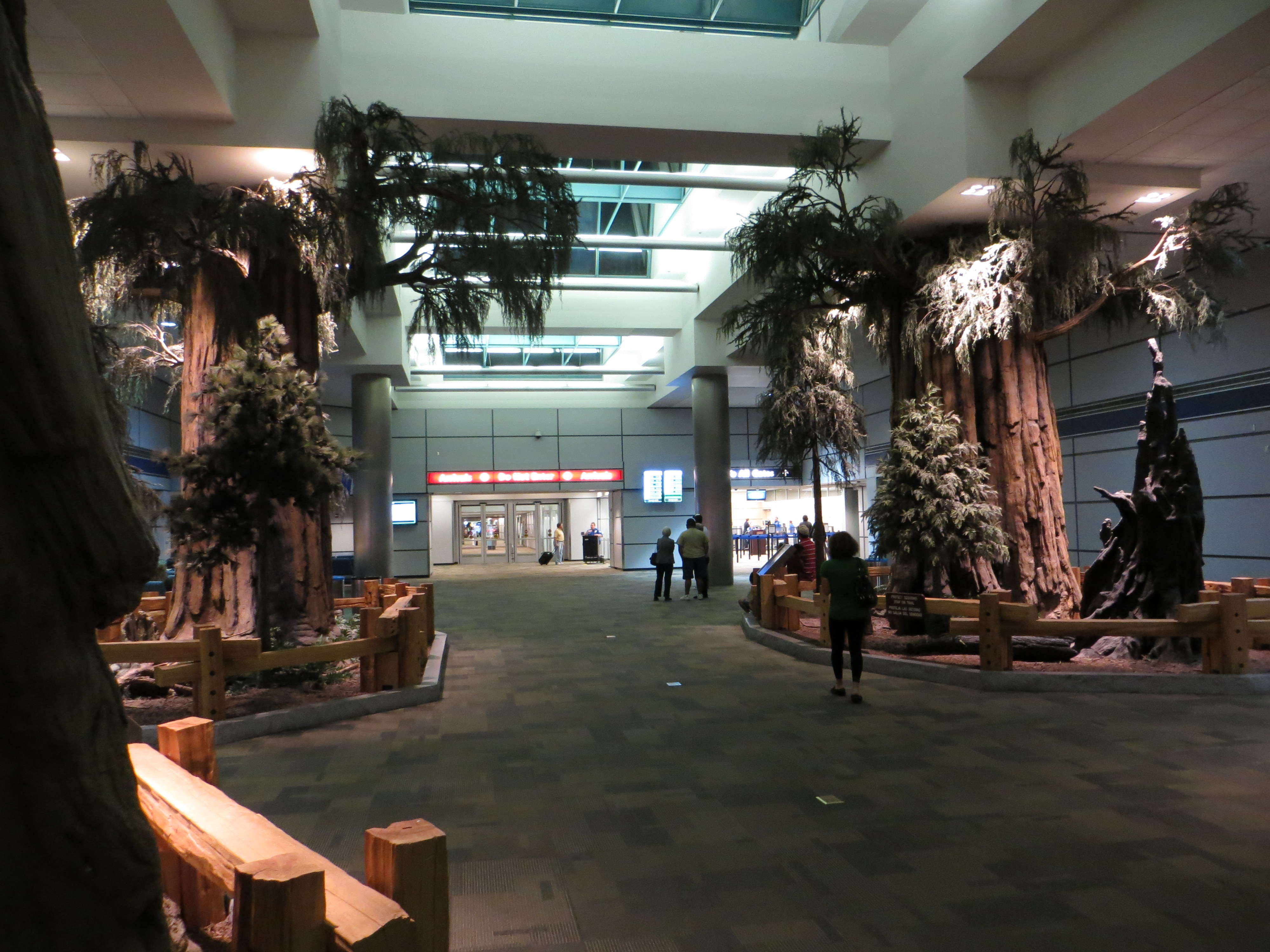 False sequoia trees inside terminal at Fresno Yosemite International Airport, California